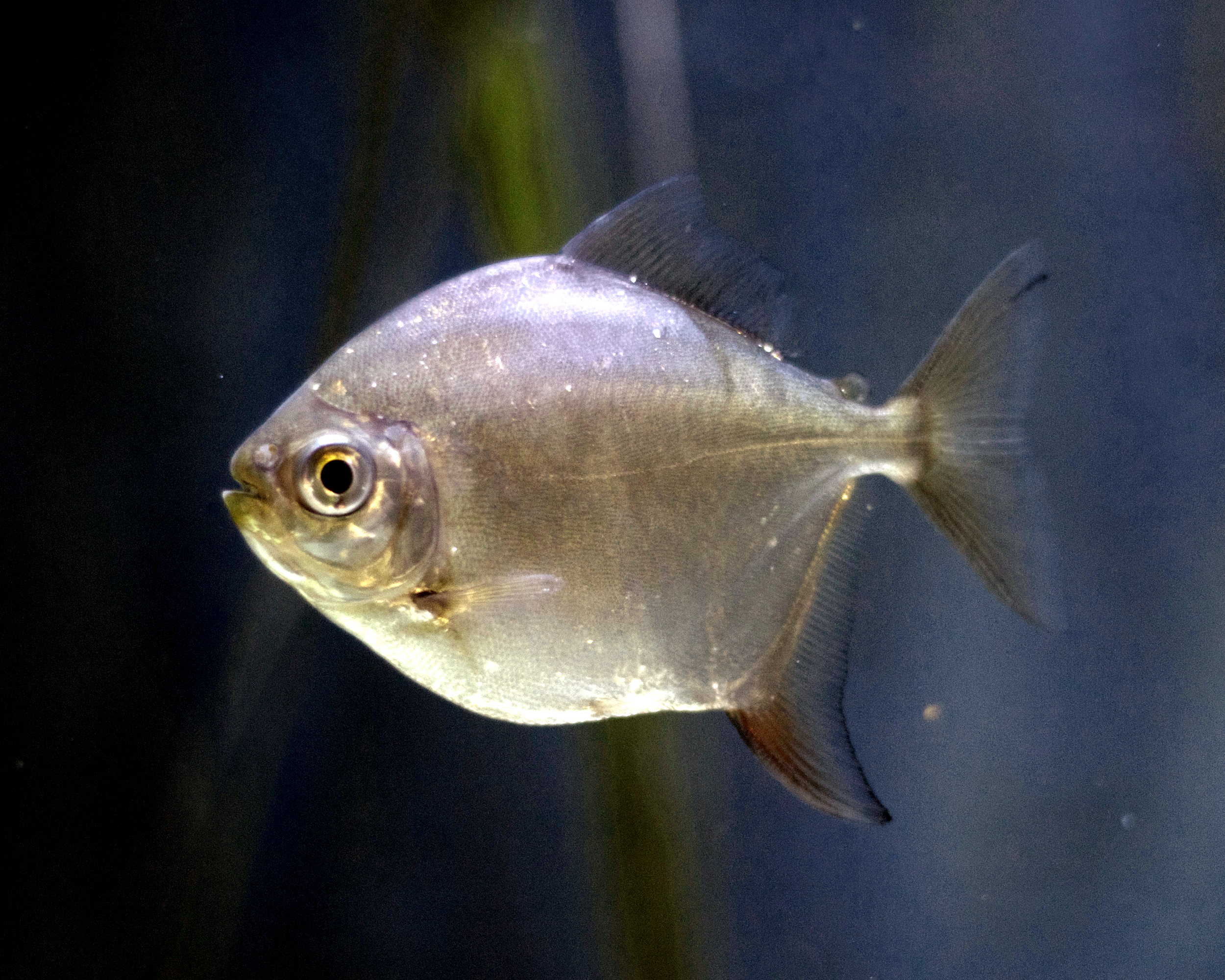 Silver dollar - Metynnis argenteus taken at Newport, Ky aquarium.